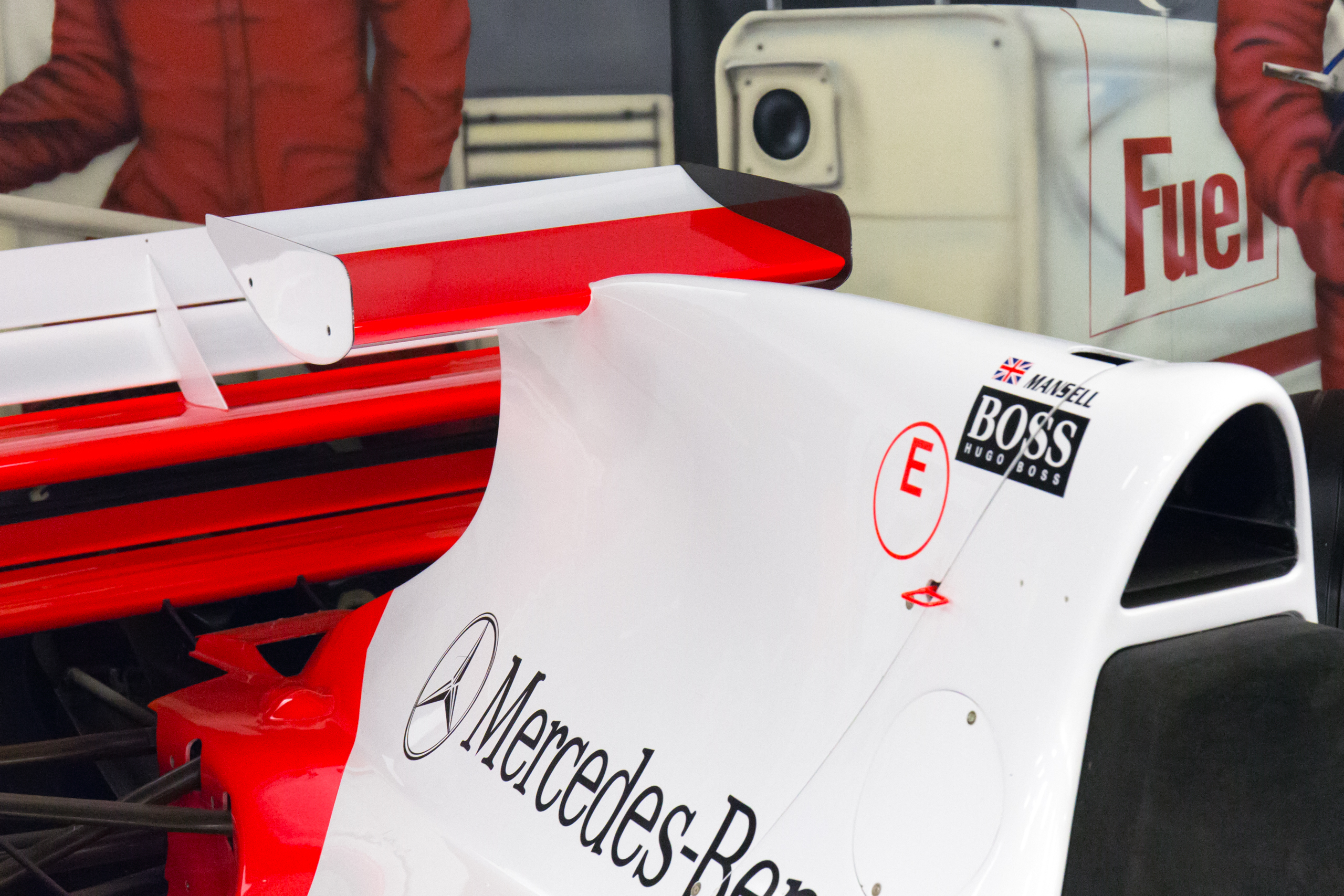 1995 McLaren MP4/10B (#7 Nigel Mansell)